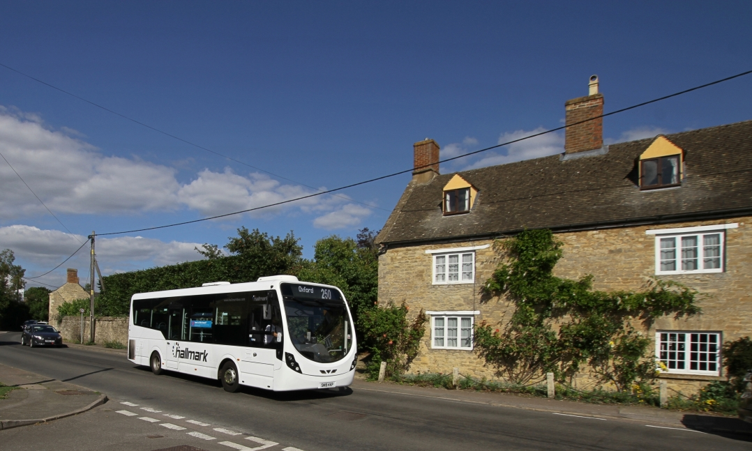 A Hallmark bus on route 250 on Heyford Road, Kirtlington, Oxfordshire. The bus is a Wright StreetLite, registration mark SM19 KKP. The house on the right is West View, an 18th-century cottage in Troy Lane.